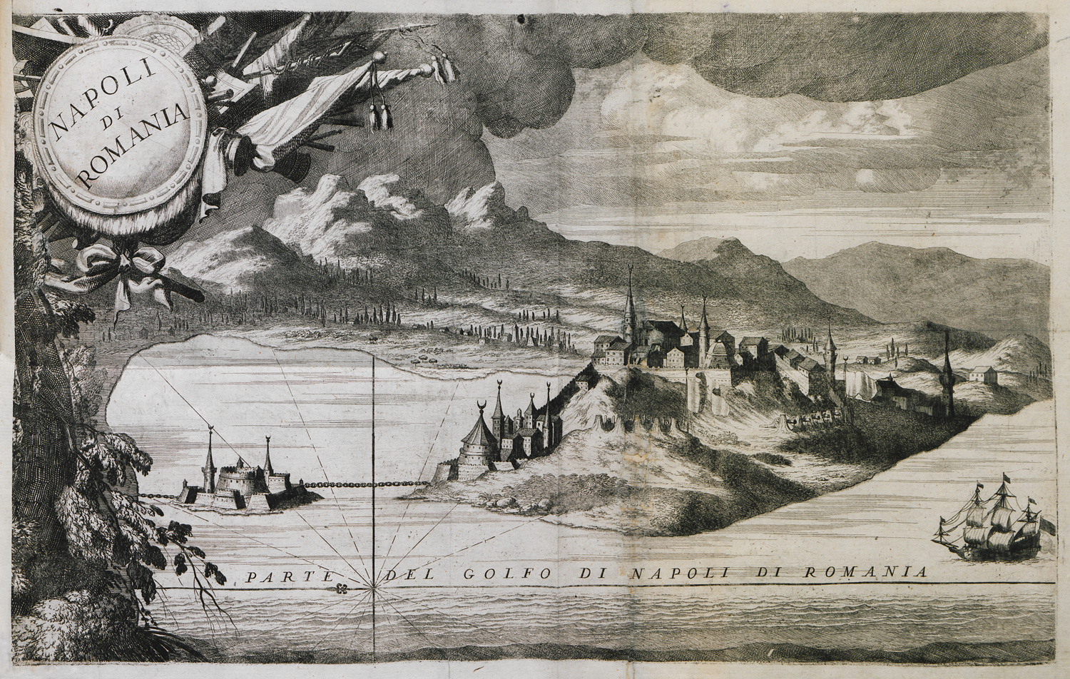 Vincenzo Coronelli. Morea, Negroponte & adiacenze, Venice, ca. 1708